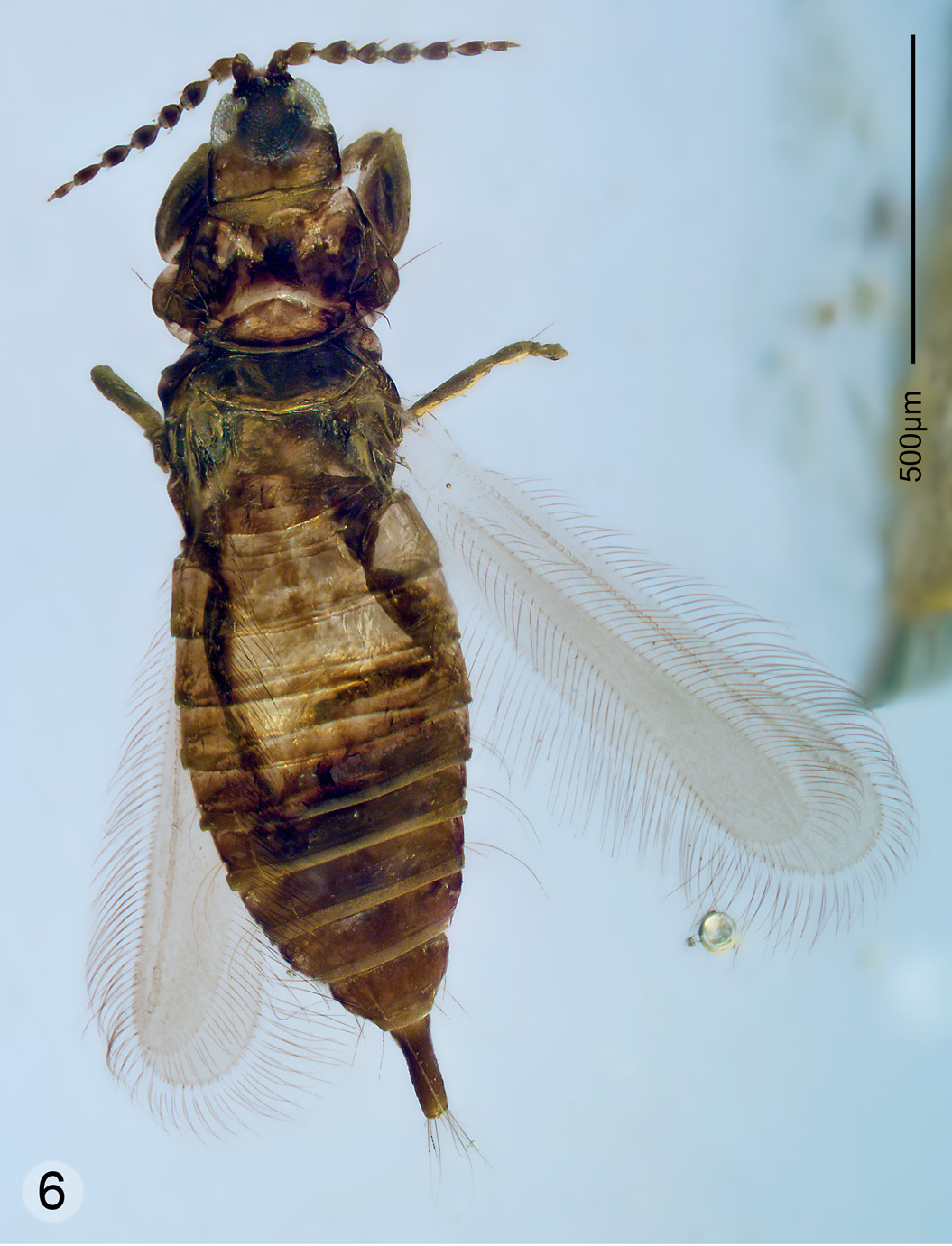 FIGURES 5–8. Rohrthrips spp. (6) dorsal view